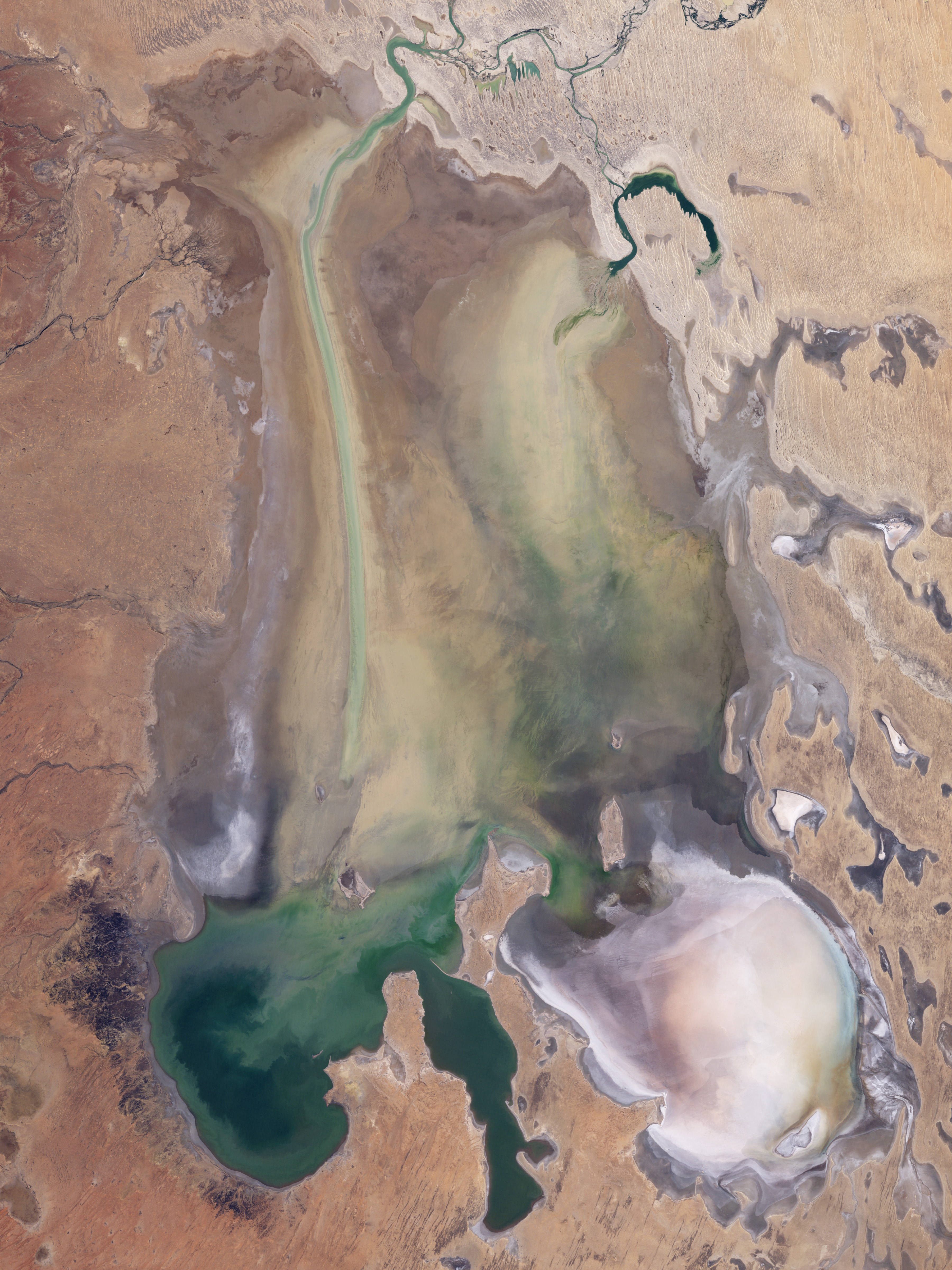 Lake Eyre